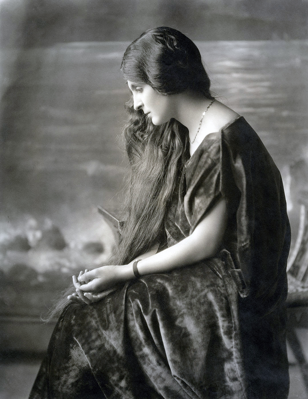 A photo of Soledad Anaya Solórzano.